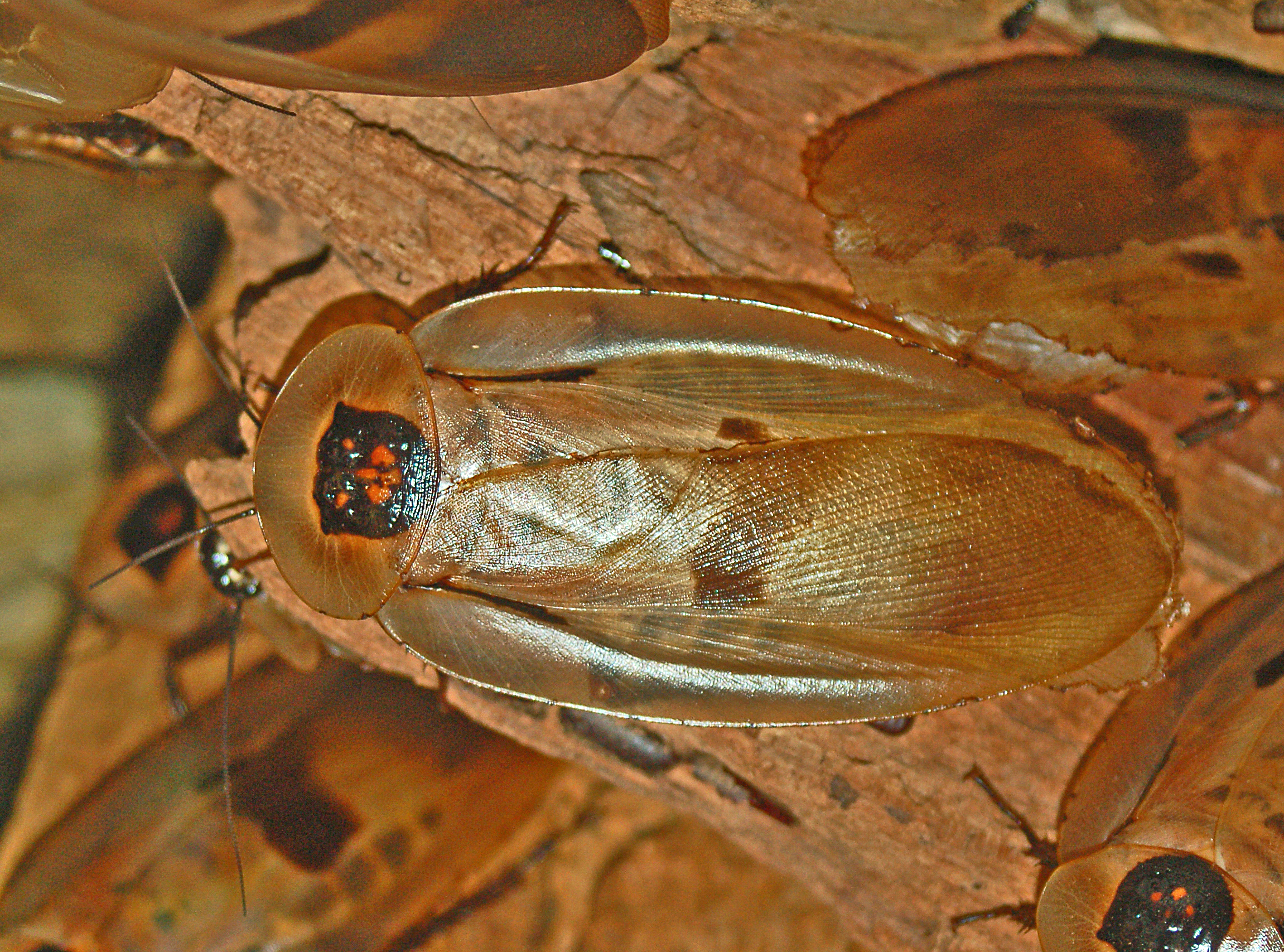 A live adult female of Blaberus giganteus on display at the Insectarium of Montreal